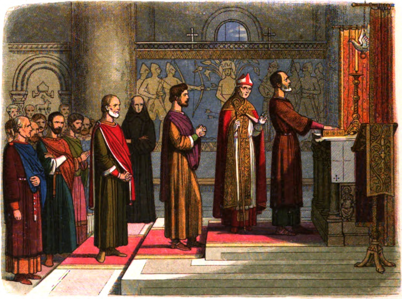 The barons of England swear at St Edmundsbury Cathedral to reduce the control King John exerts on their lives.